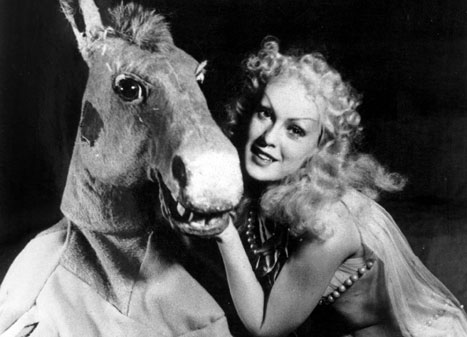 A seductive Gaby Stenberg played Titania in Shakespeare's A Midsummer Night's Dream at the opening premiere at Malmö City Theatre 1944.